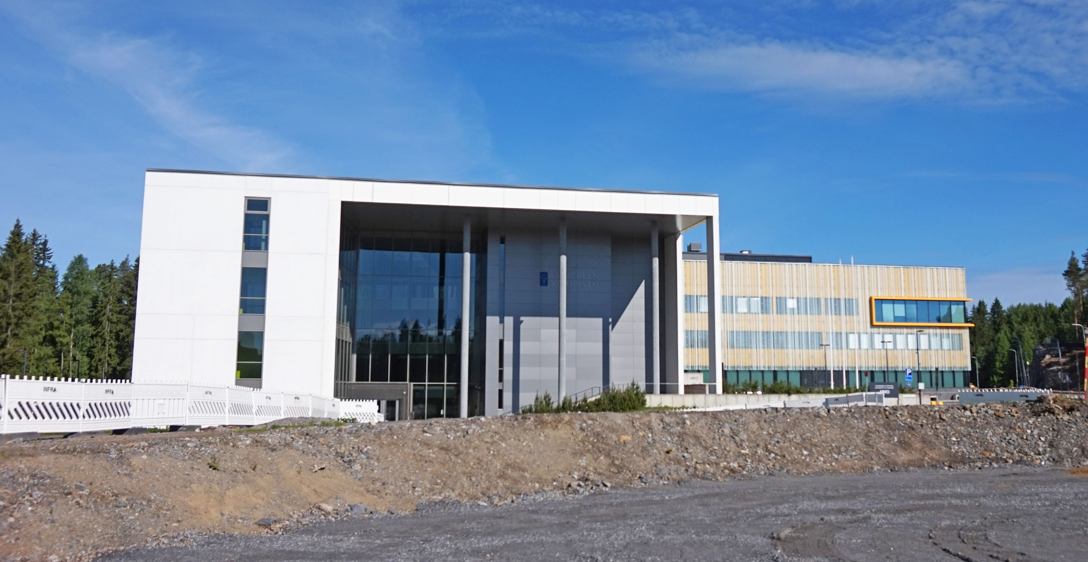 The building Arvo of Tampere University. Tampere, Finland.This photograph was taken with a Sony ILCE-5000